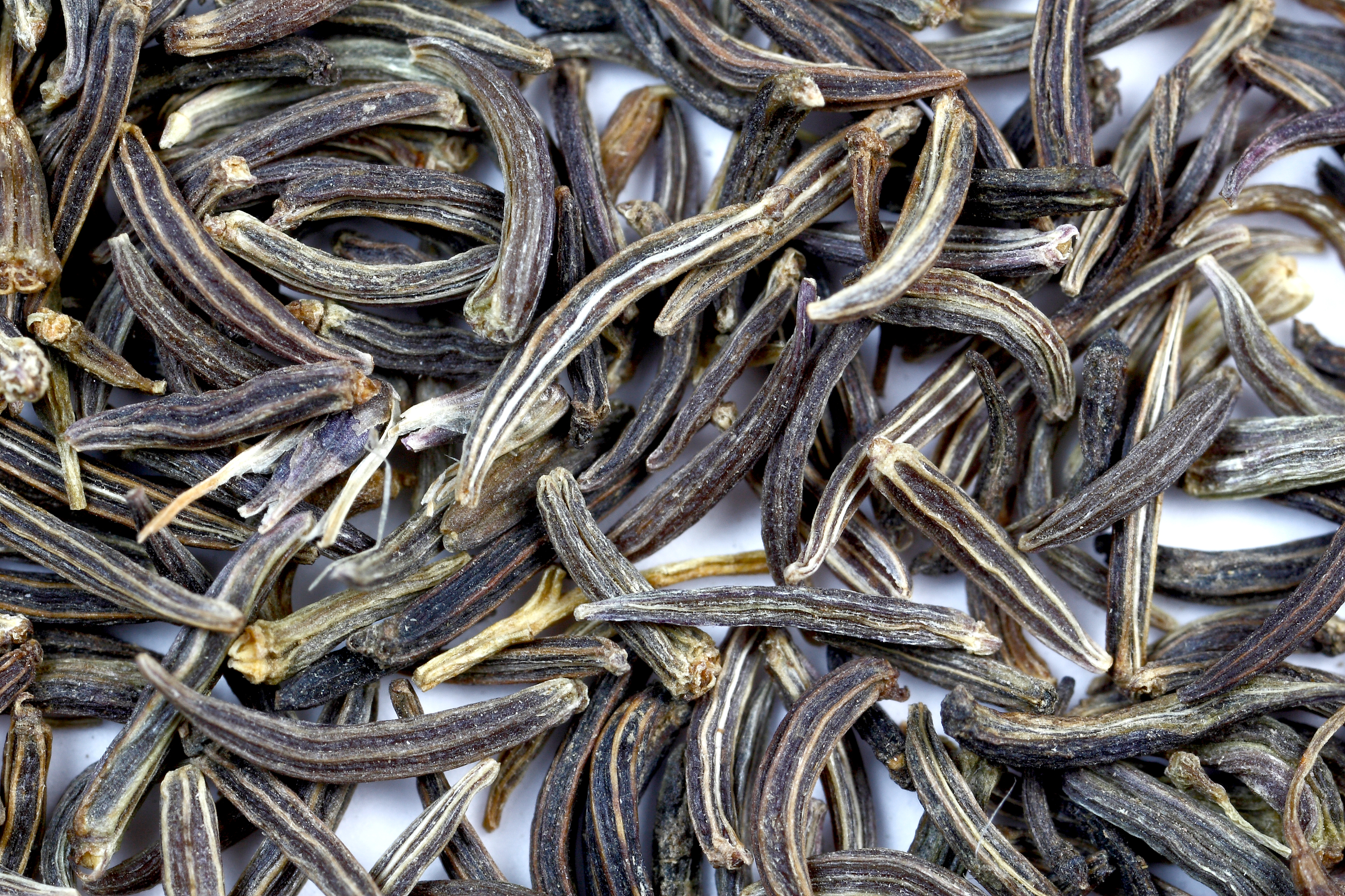 Close up picture of black cumin seeds, Bunium bulbocastanum or Bunium persicuum.